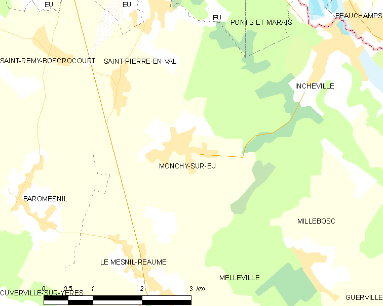 Map of French municipality Monchy-sur-Eu